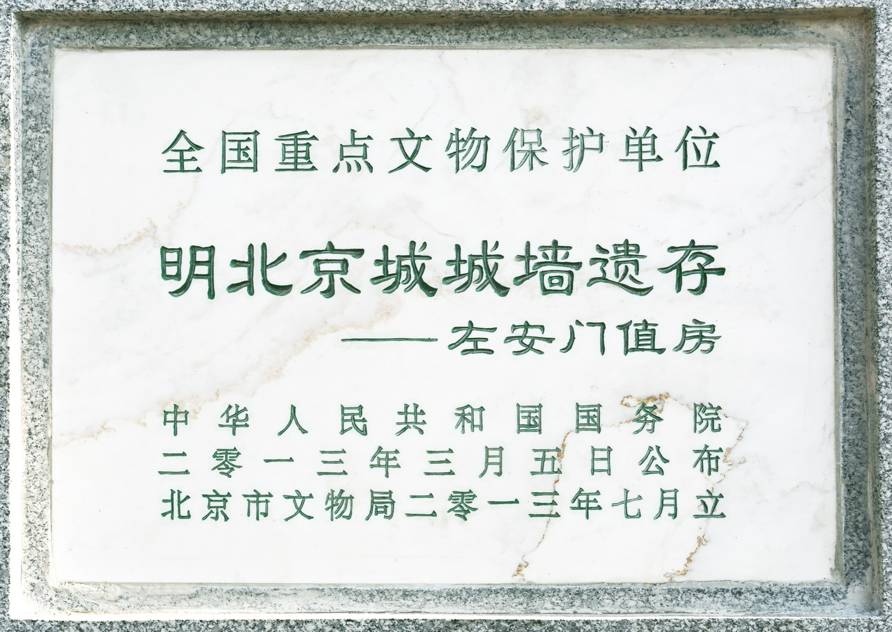 Zuoanmen Gate House, Beijing City Wall of Ming Dynasty